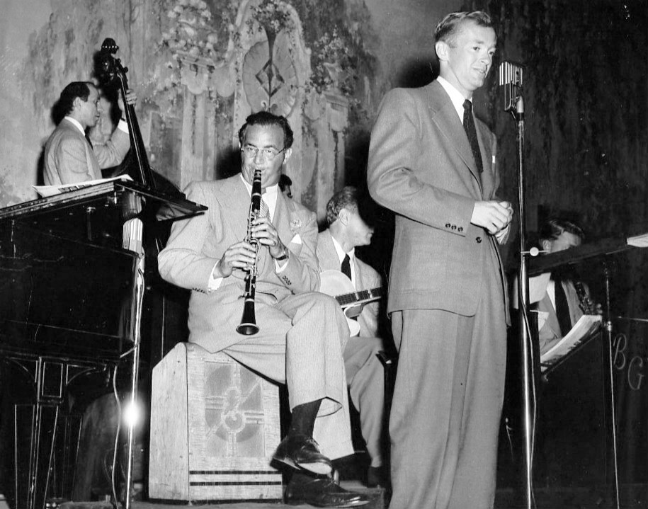 Photo of Benny Goodman, his band and vocalist Jackie Searle.